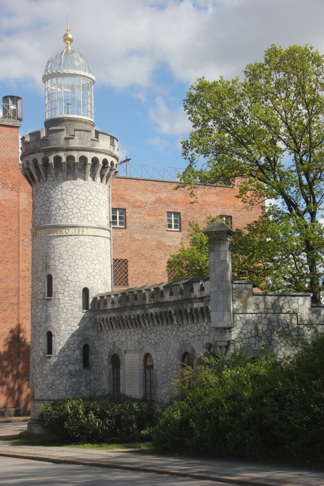 The Kridttårnet lighthouse in the Carlsberg area of Copenhagen, Denmark